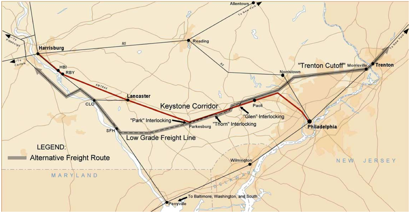 Map of Amtrak's Keystone Corridor, showing the partially-abandoned PRR low-grade freight line